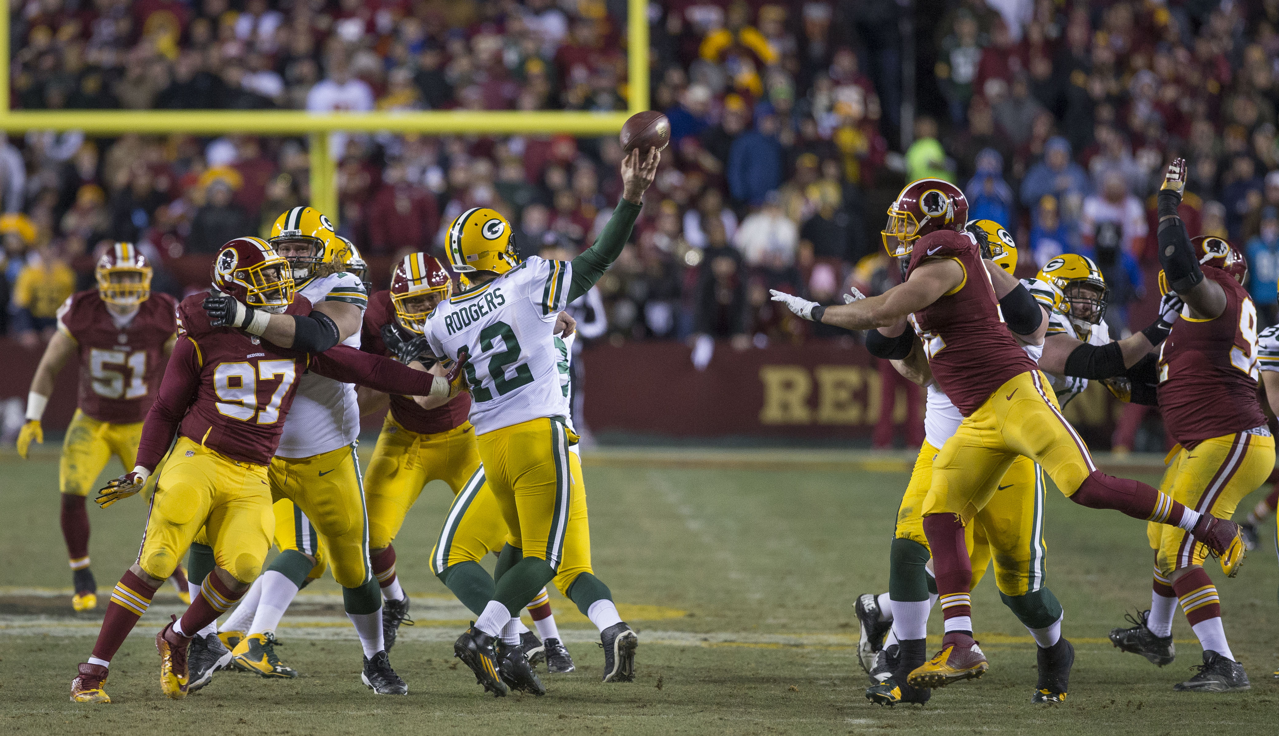 Packers at Redskins Wildcard Game 01/10/16